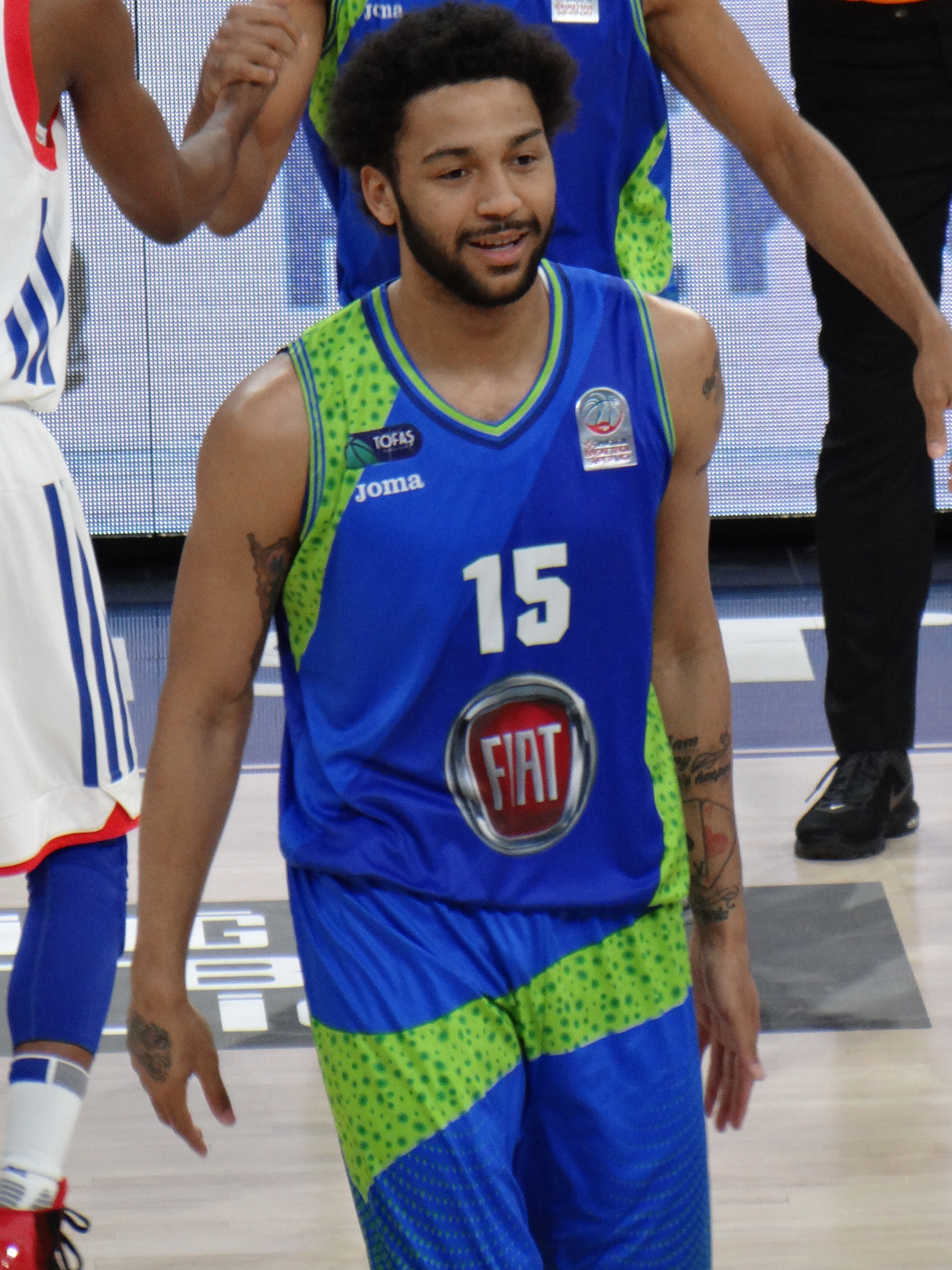 Pierria Henry 15 Tofaş SK 20180326